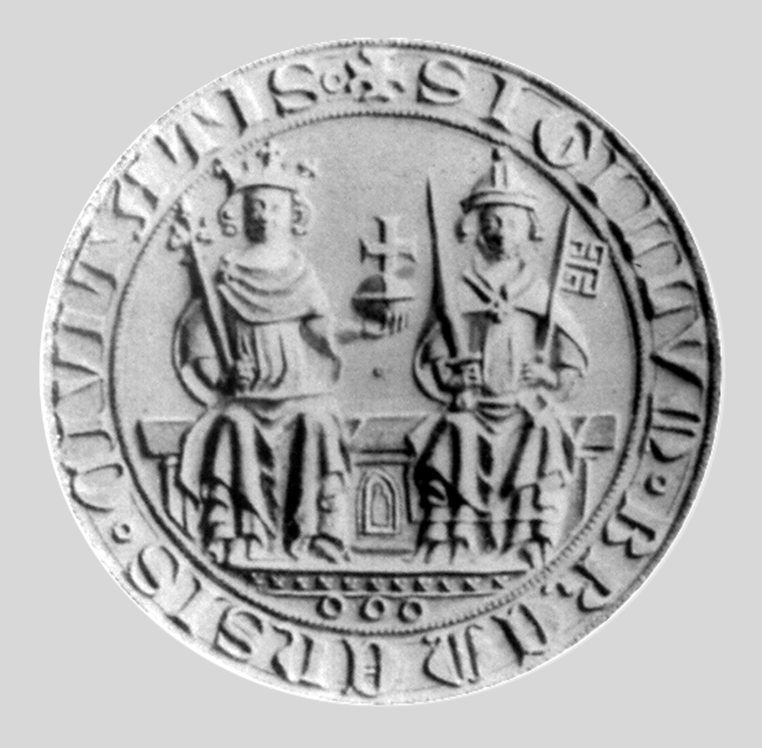 The City of Bremen in Germany used this seal between 1366 and 1833